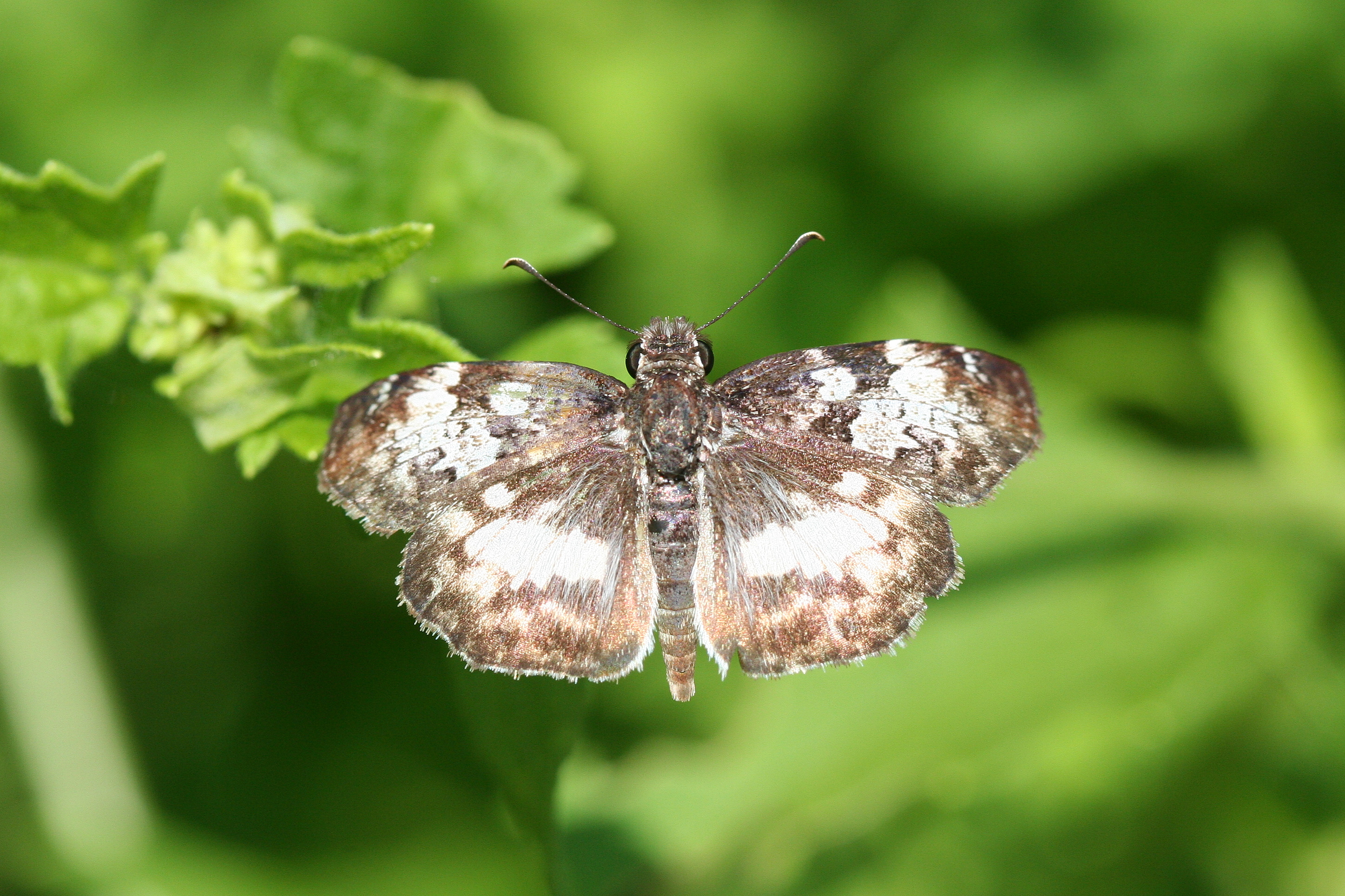 Chiomara georgina White-patched Skipper